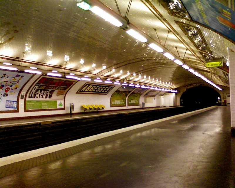 Abbesses metro station, Paris